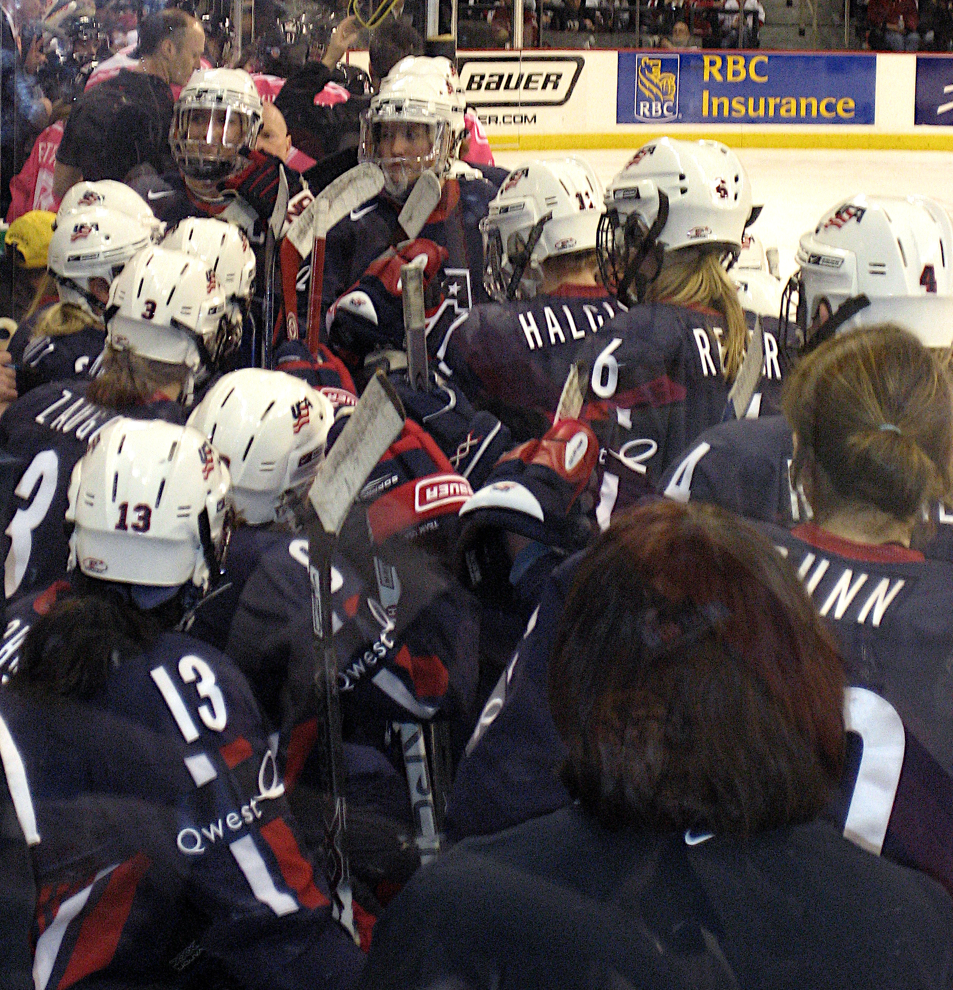 Bench of the Team USA during game of the IIHF World Championchips vs. Team Canada